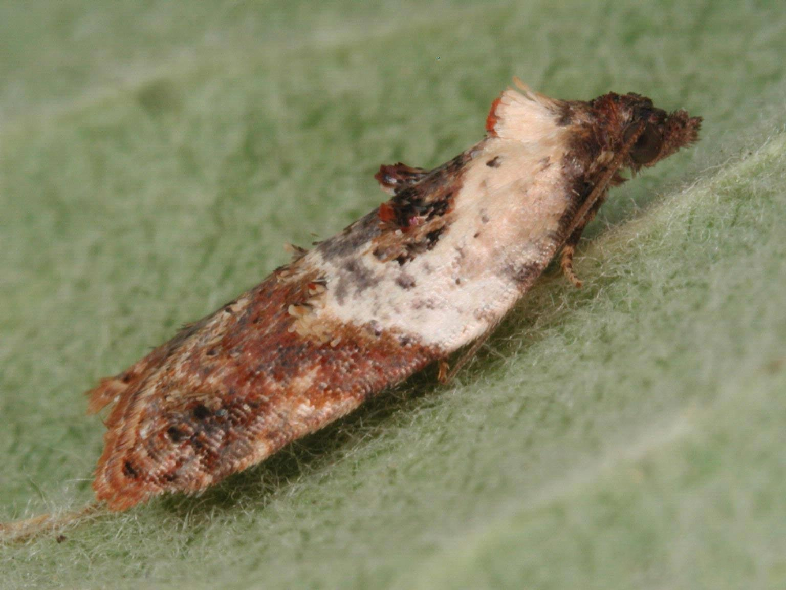 Acleris variegana Denis &. Schifferm%uFFFDller, 1775 Common Name: garden rose tortricid moth Photographer: Gyorgy Csoka, Hungary Forest Research Institute, Hungary Descriptor: Adult(s) Image taken in: Hungary